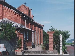 Dohzaki church, in Gotoh city, Nagasaki, Japan 長崎県五島市堂崎教会